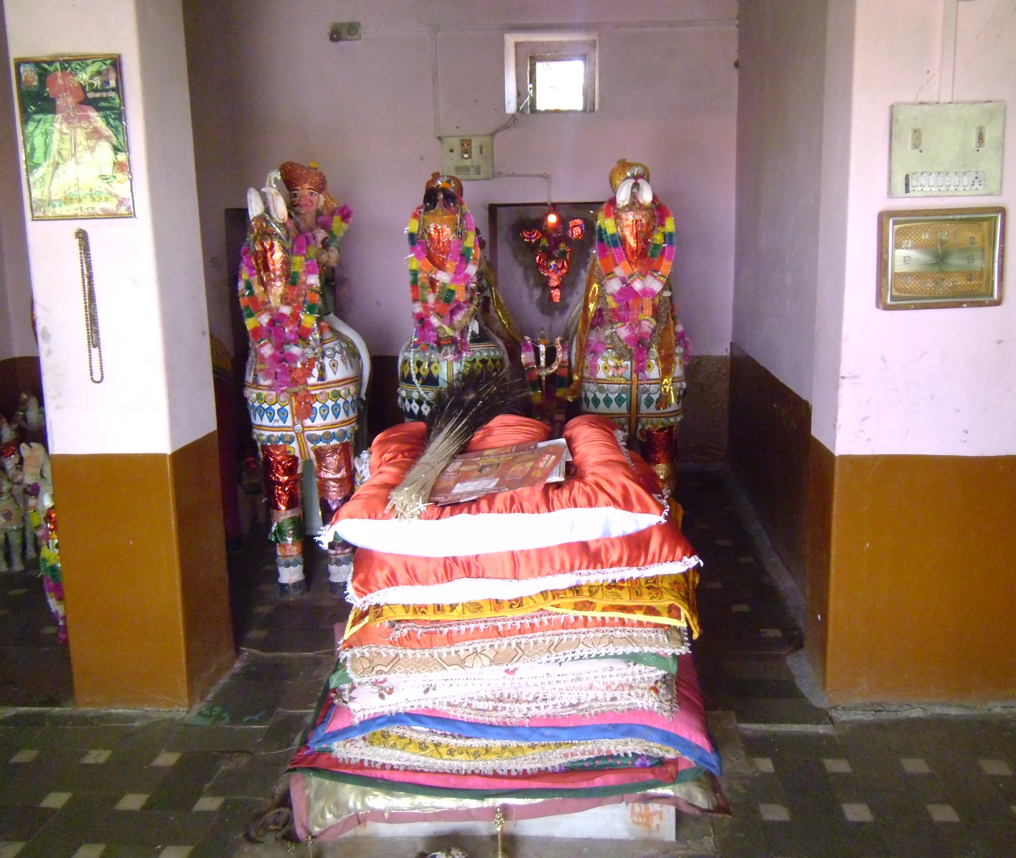 Worship place of Mamaji Maharaj.